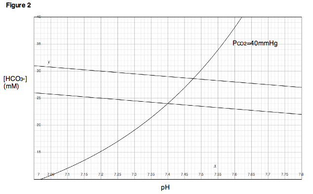 Description: Figure 2. A typical Davenport Diagram.